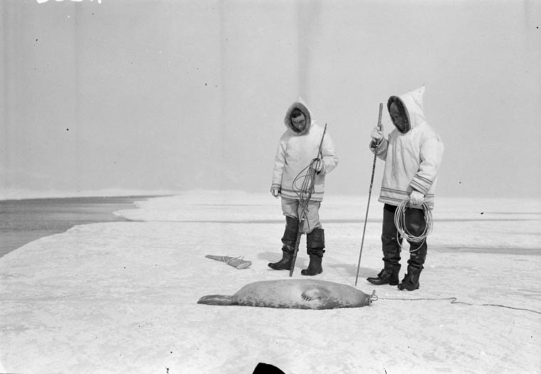 Harold Kalluk (left) and Joseph Idlout (right). Idlout has speared a seal at Pond Inlet